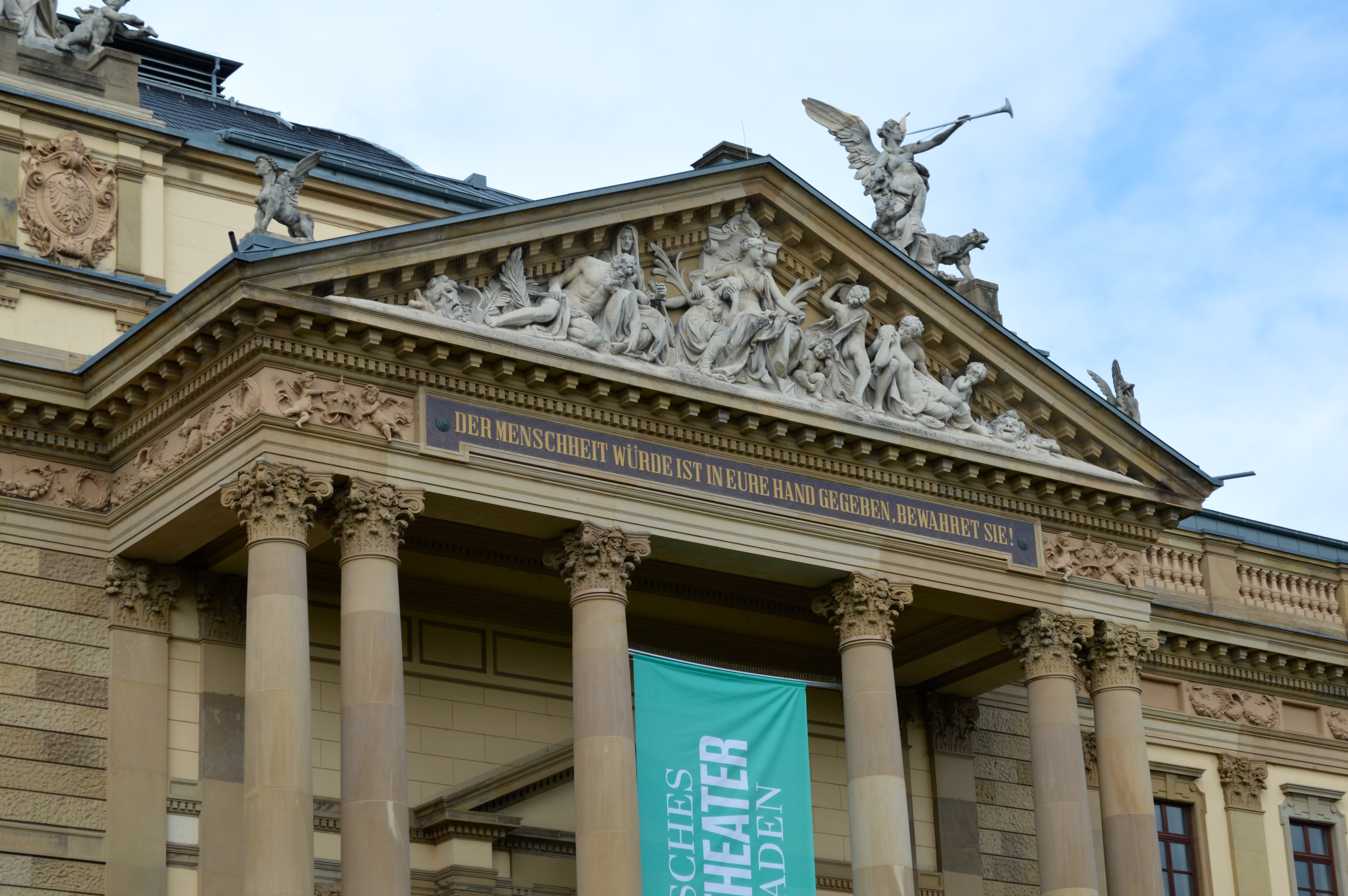 Detail of Baroque Revival ornamentation on the Hessisches Staatstheater's southern facade